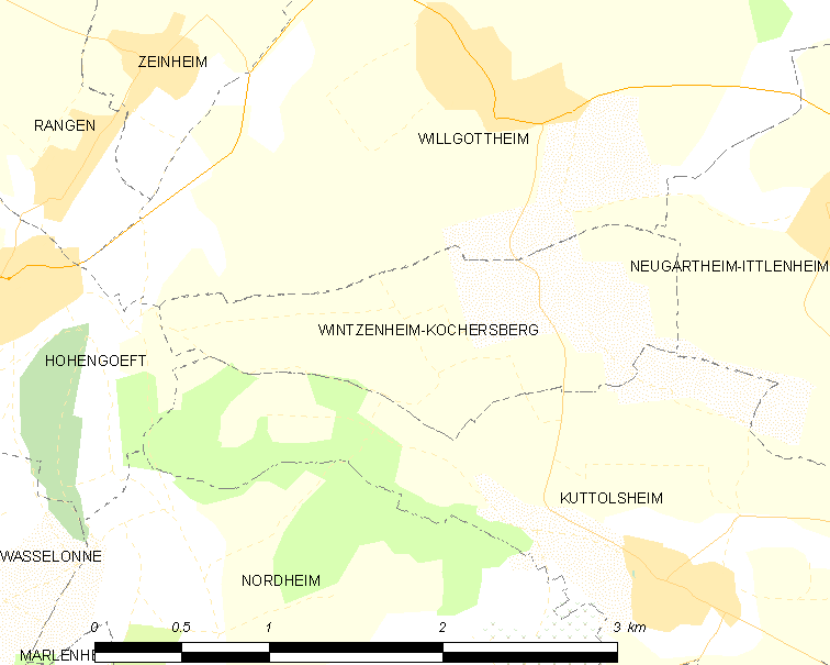 Map of French municipality